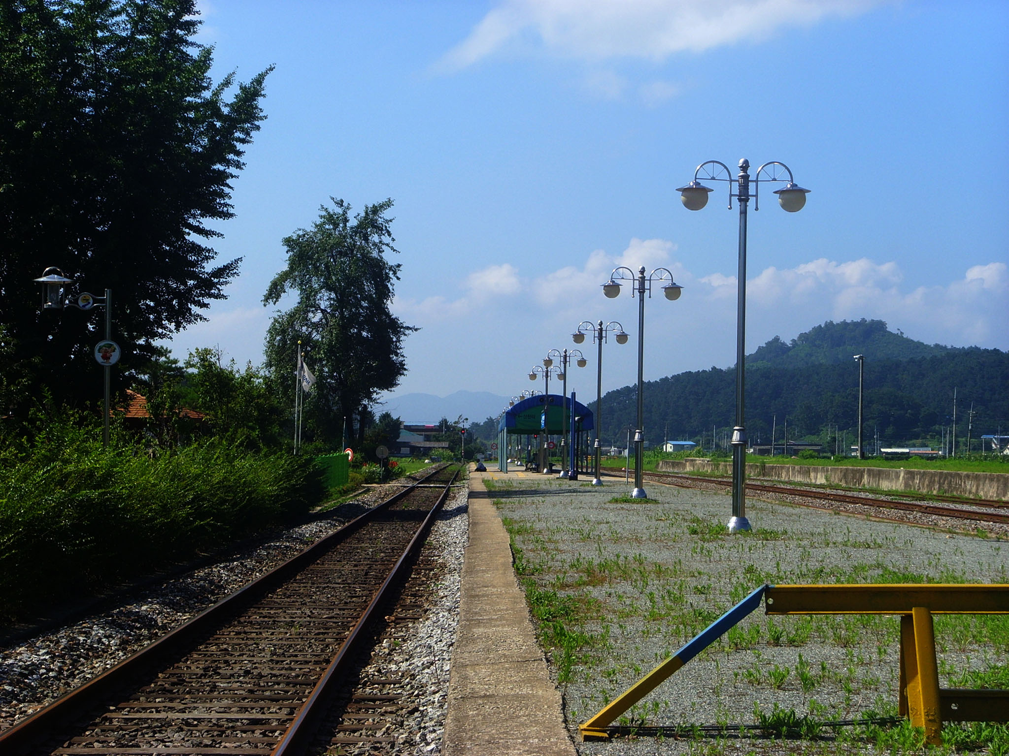 Gyeongwon Line Yeoncheon Station